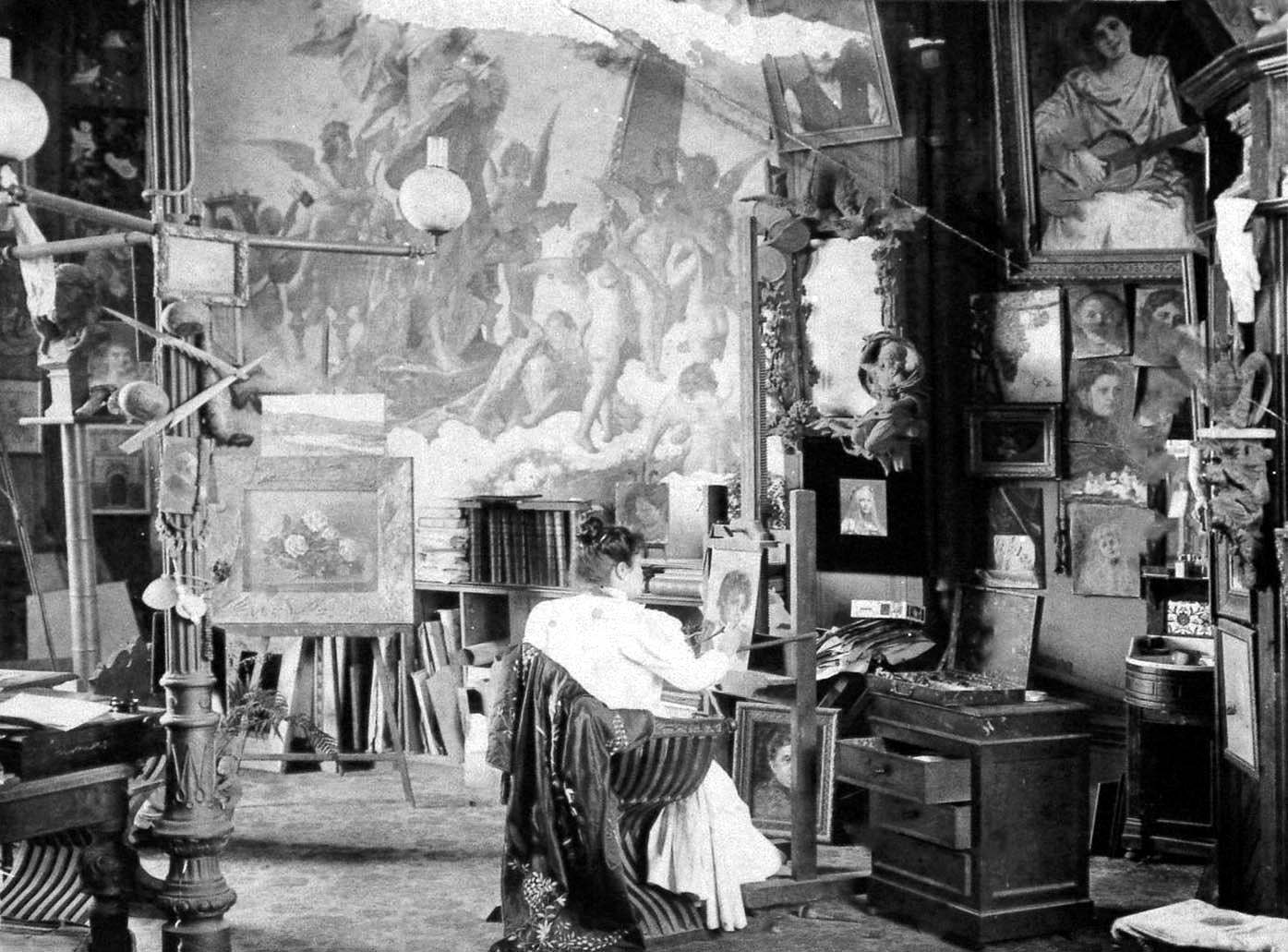 Argentinean artist Eugenia Belin Sarmiento, seated in her studio in the house of her grandfather, Domingo Faustino Sarmiento.